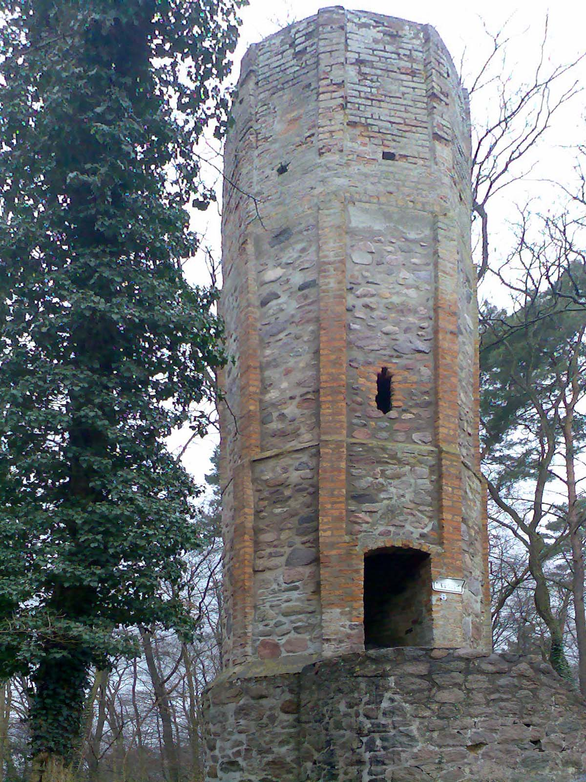 observation tower near Gransee